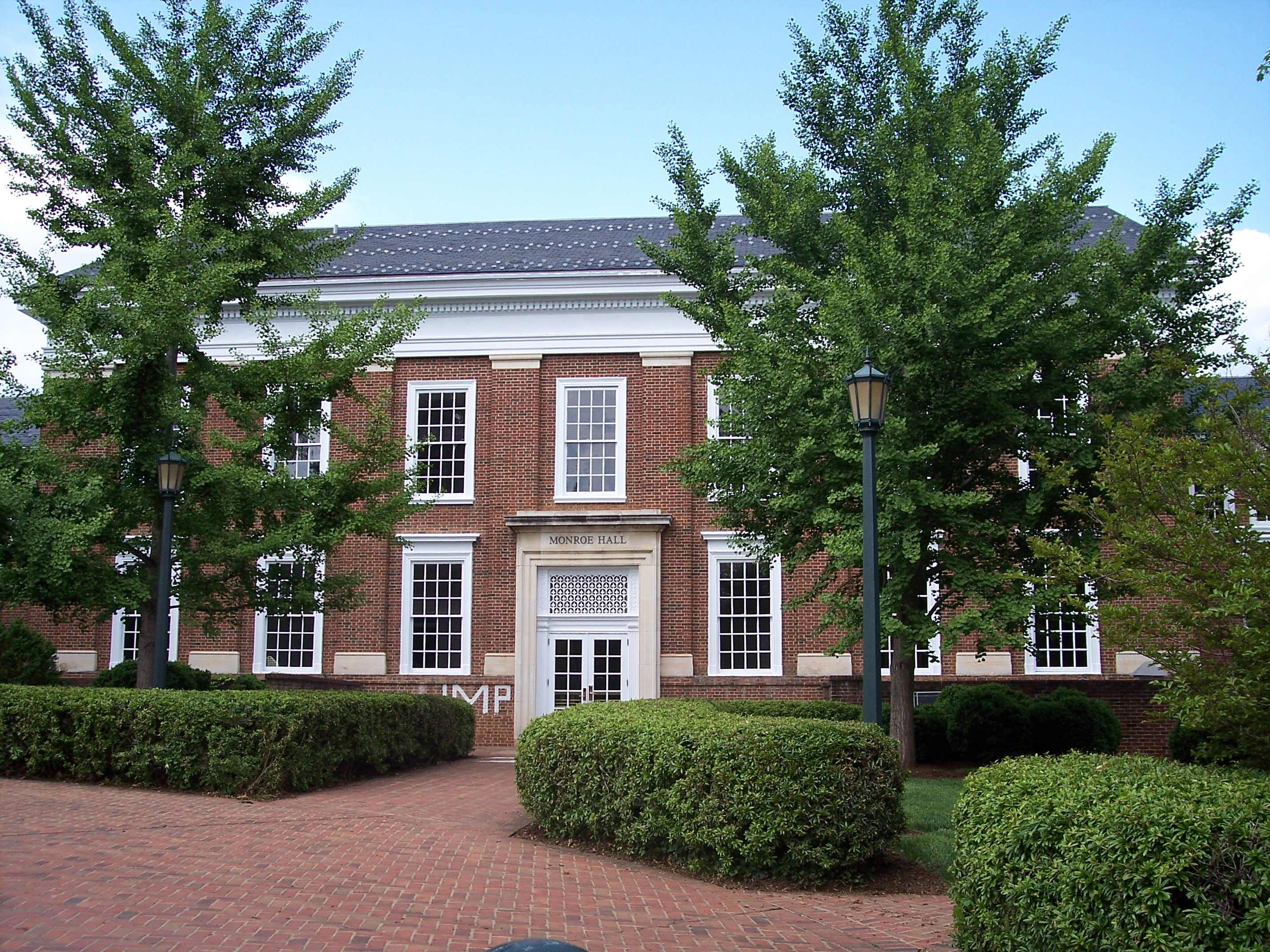 Monroe Hall at the University of Virginia